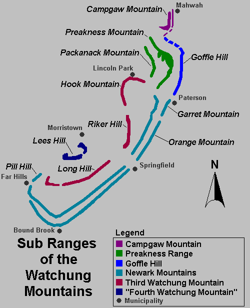 The map above uses color shading to depict the various sub ranges and ridges of the Watchung Mountains.